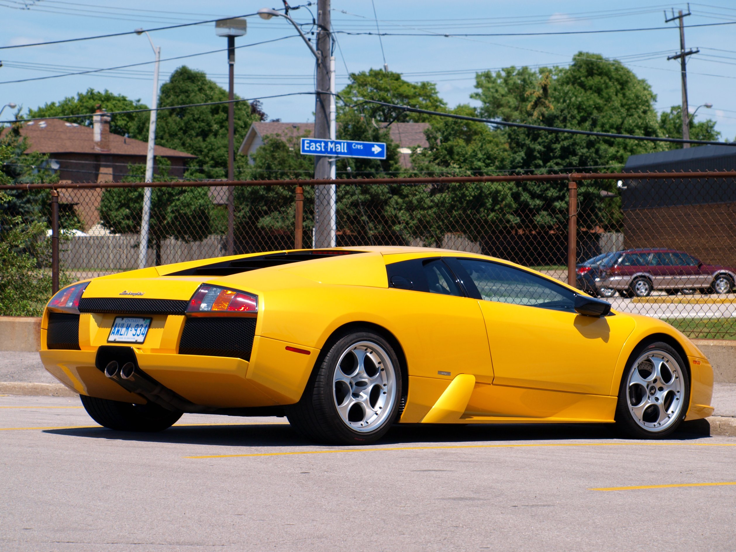 I couldn't help but to park near him :P. Beautiful car!